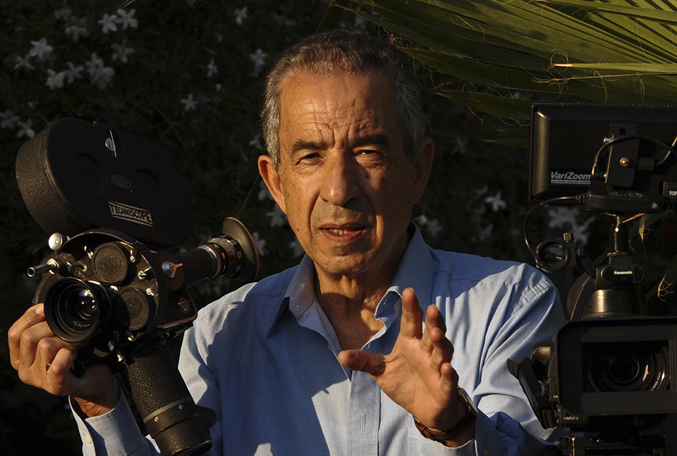 A 2010 self-portrait by Greek-Cypriot filmmaker Michael Papas (taken with a camera on a timer).